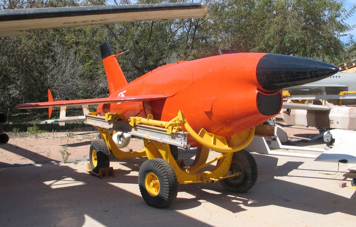 Description: Teledyne Ryan Firebee UAV (target variant, IDF designation Shadmit) at Muzeyon Heyl ha-Avir, Hatzerim airbase, Israel. 2006. Source: Photo by me, User:Bukvoed.